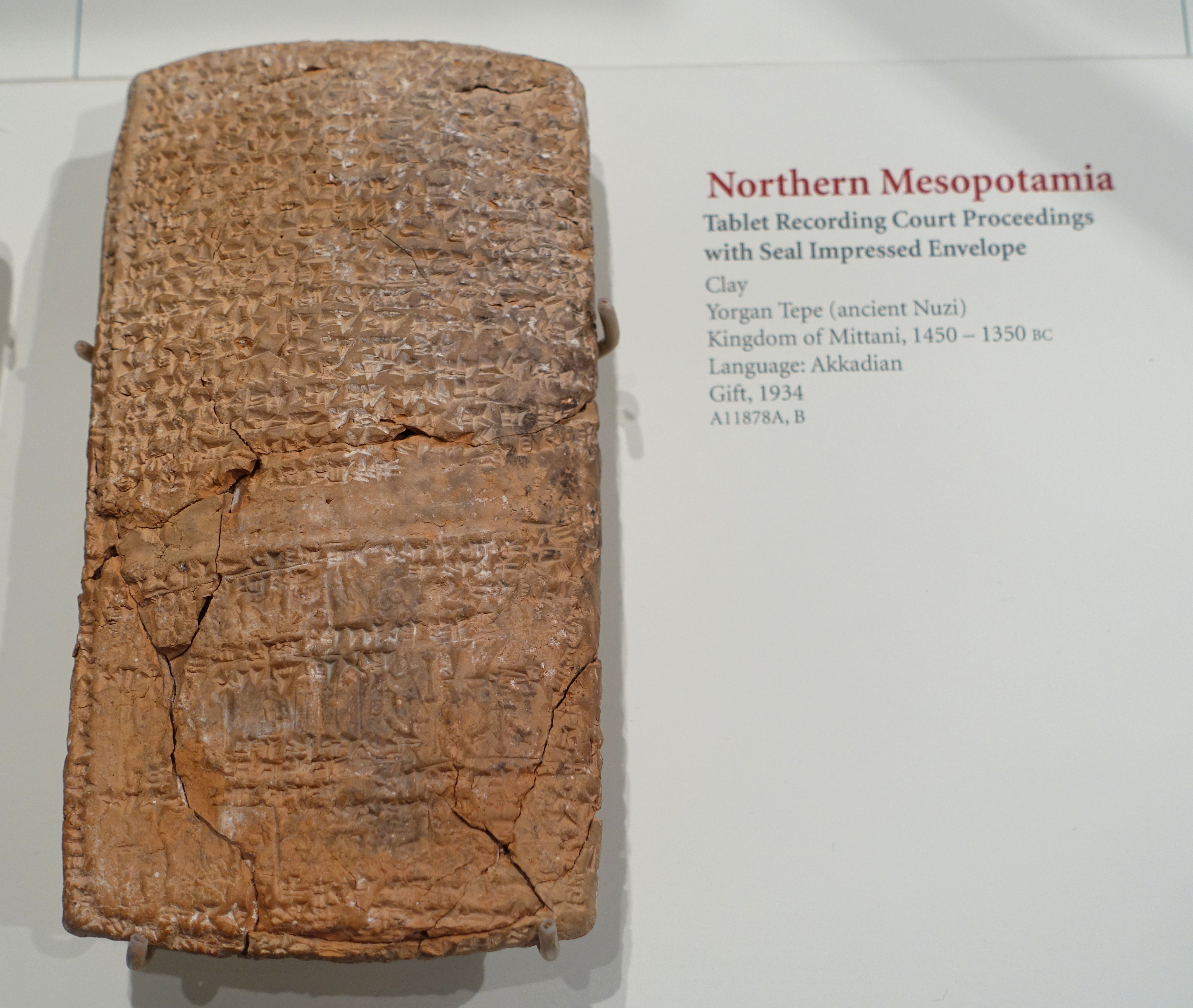 Exhibit in the Oriental Institute Museum, University of Chicago, Chicago, Illinois, USA. This work is old enough so that it is in the public domain.